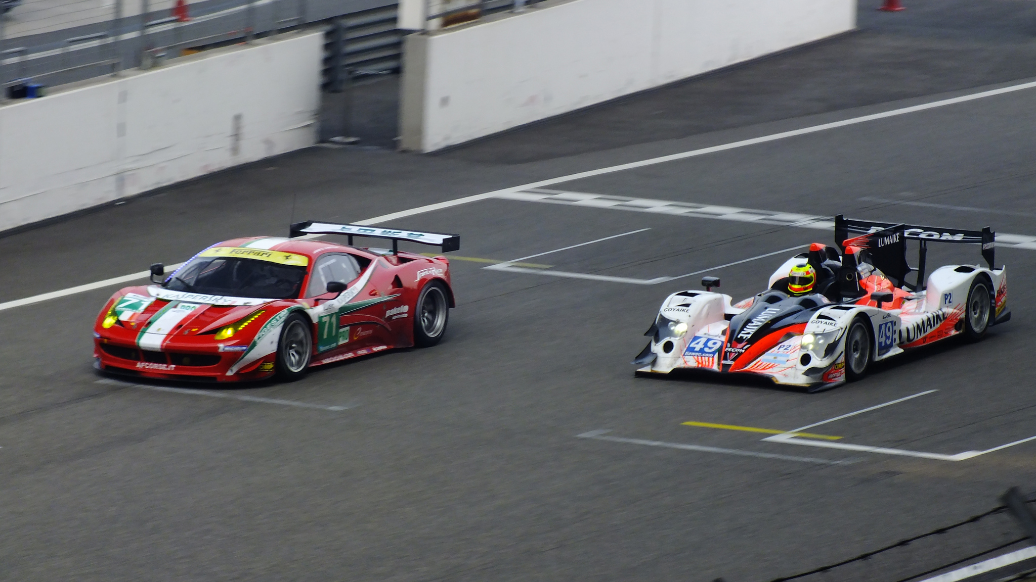 The AF Corse Ferrari 458 Italia GTC and Pierre Kaffer in the Pecom Racing Oreca 03-Nissan at the 2012 6 Hours of Shanghai